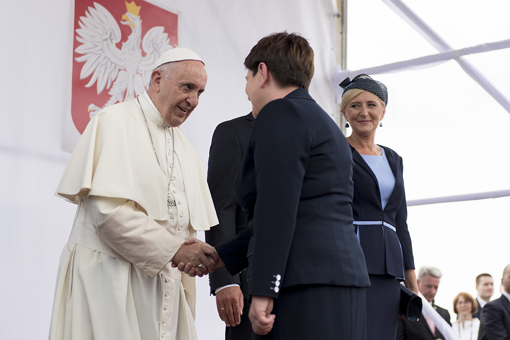 27.07.2016, Kraków | Premier Beata Szydło wraz z polskim władzami przywitała Ojca Świętego w Krakowie. fot. P. Tracz/KPRM